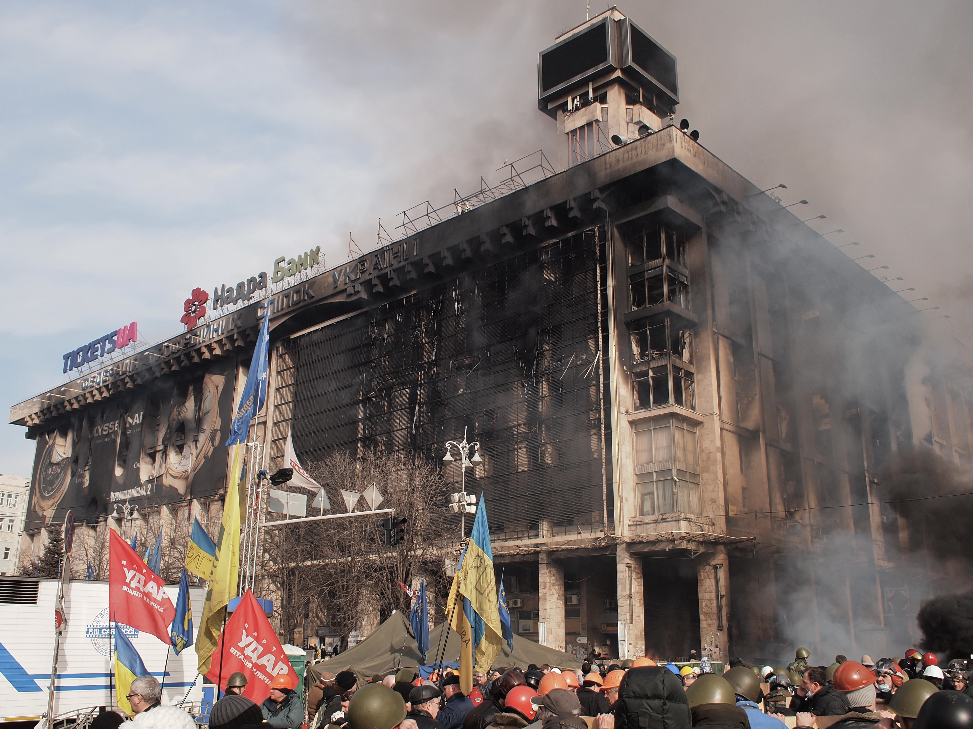 Euromaidan in Kiev, 19 February 2014. Labor Unions' House on fire. It was reportedly set afire by policemen as it was used by protesters as their headquarters.